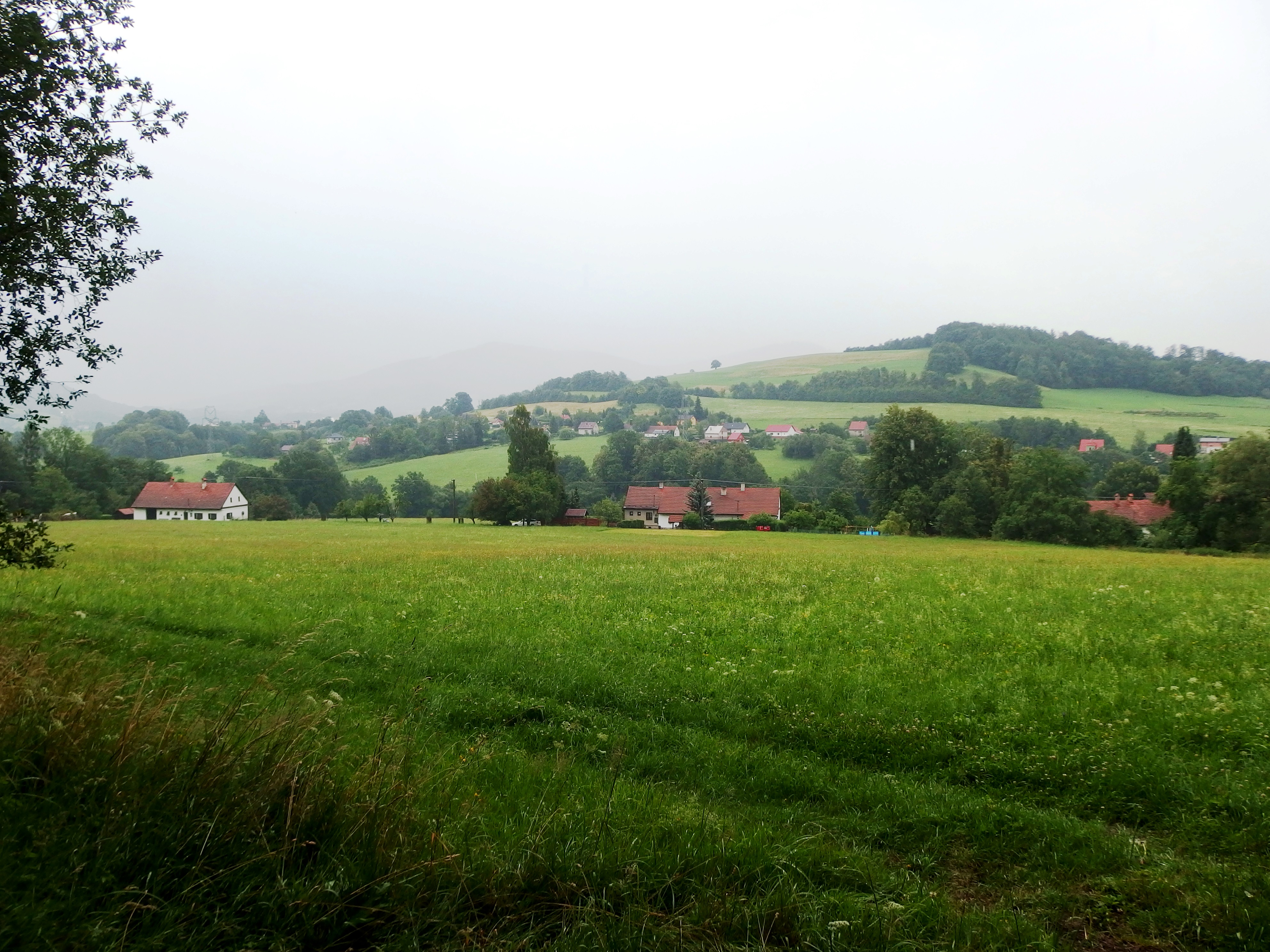 Kozlovice, Frýdek Místek District, Czech Republic, part Měrkovice.